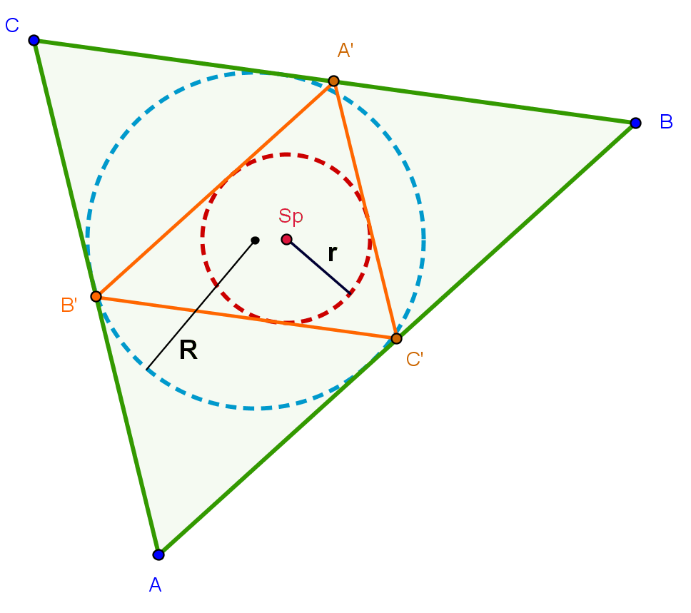 Triangle, inclued medial triangle, incircled with Spieker circle ja Speiker point